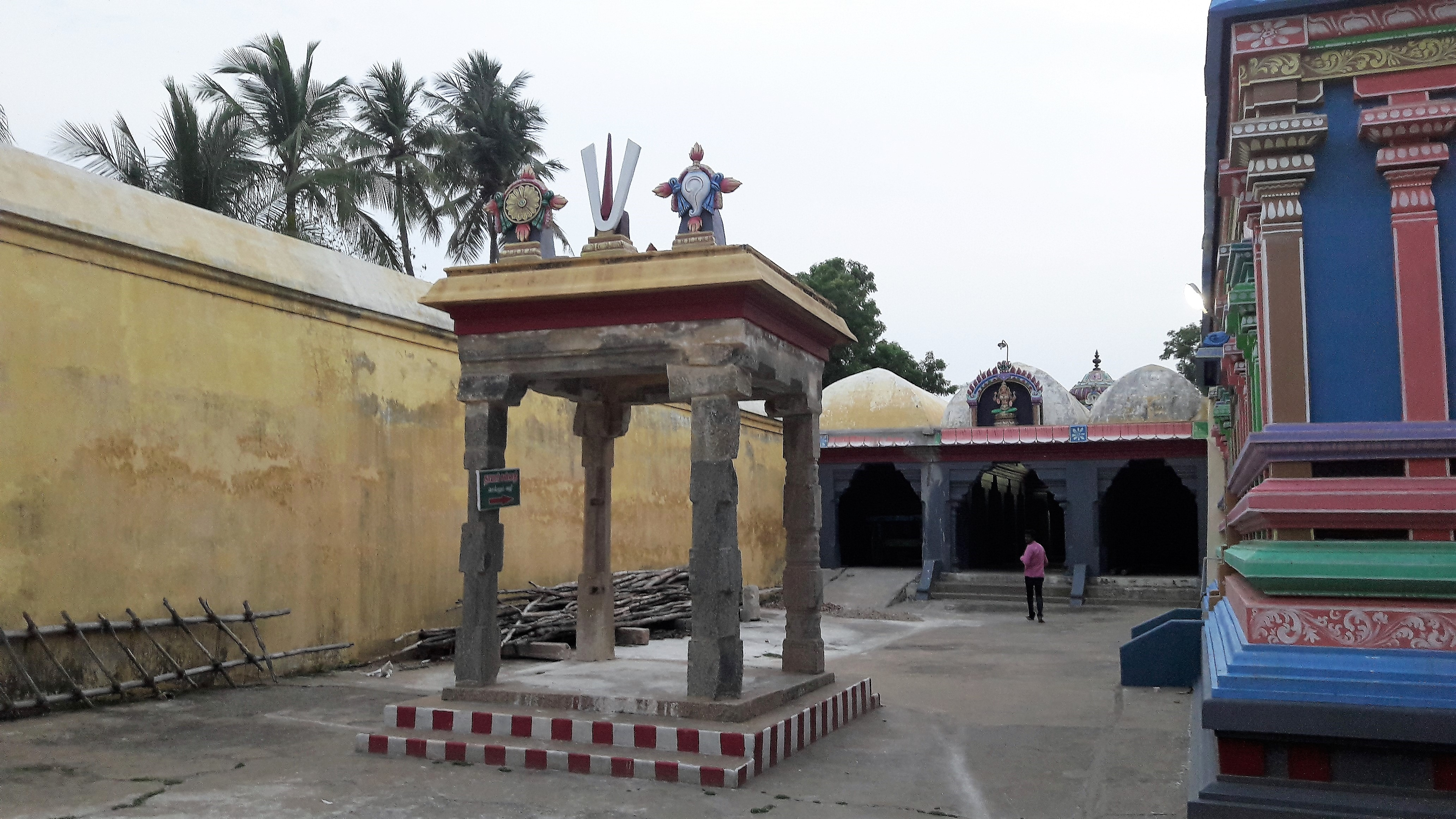 Kola Valvill Ramar Temple, Tiruvelliyangudi